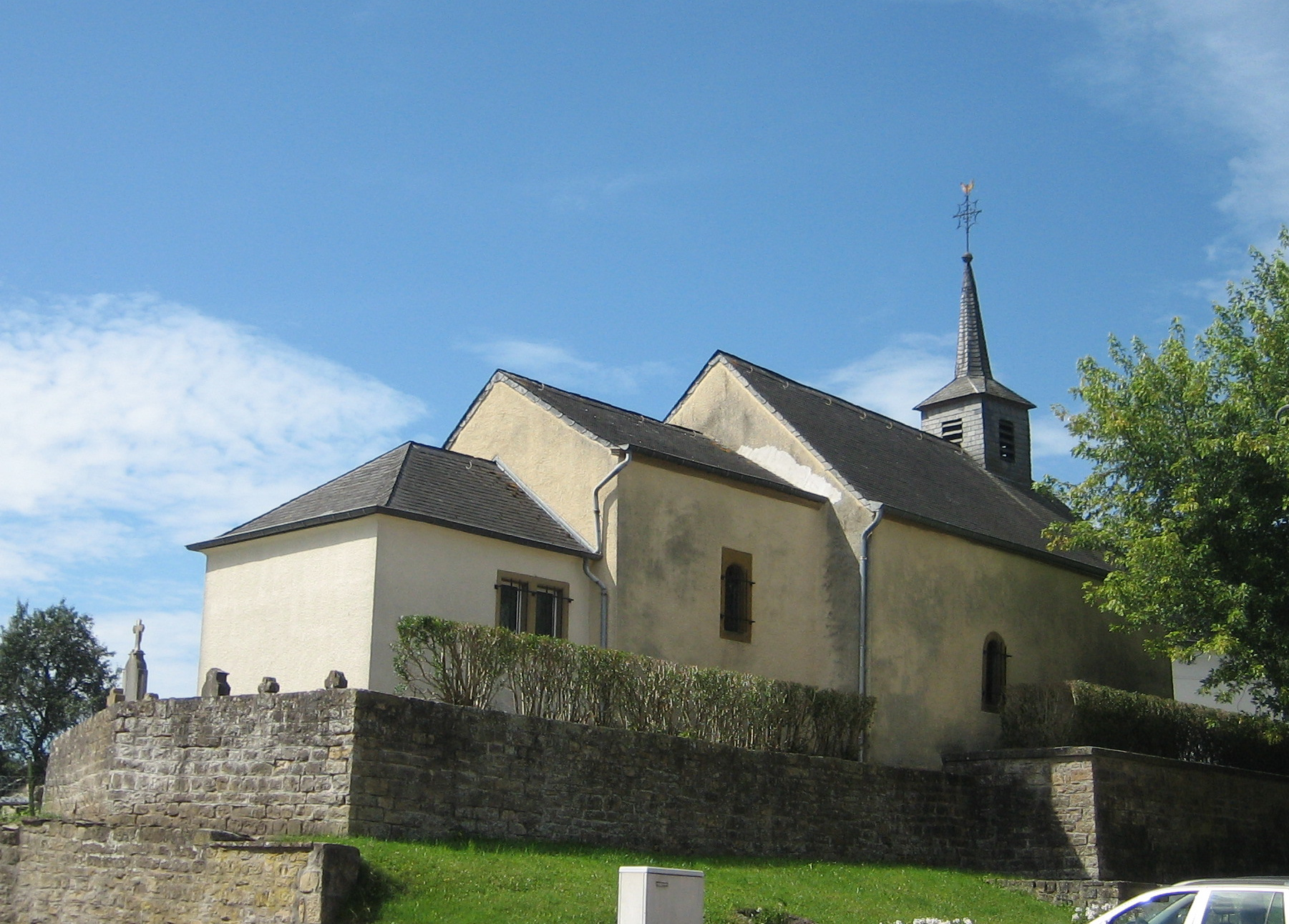 Chapel in Altlinster, Luxembourg. Listed since 7 february 1984 as inventaire supplémentaire of cultural heritage monuments.